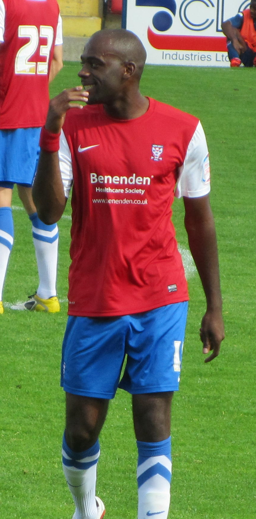 Jamal Fyfield playing for York City against Oldham Athletic at Bootham Crescent, York on 21 July 2012